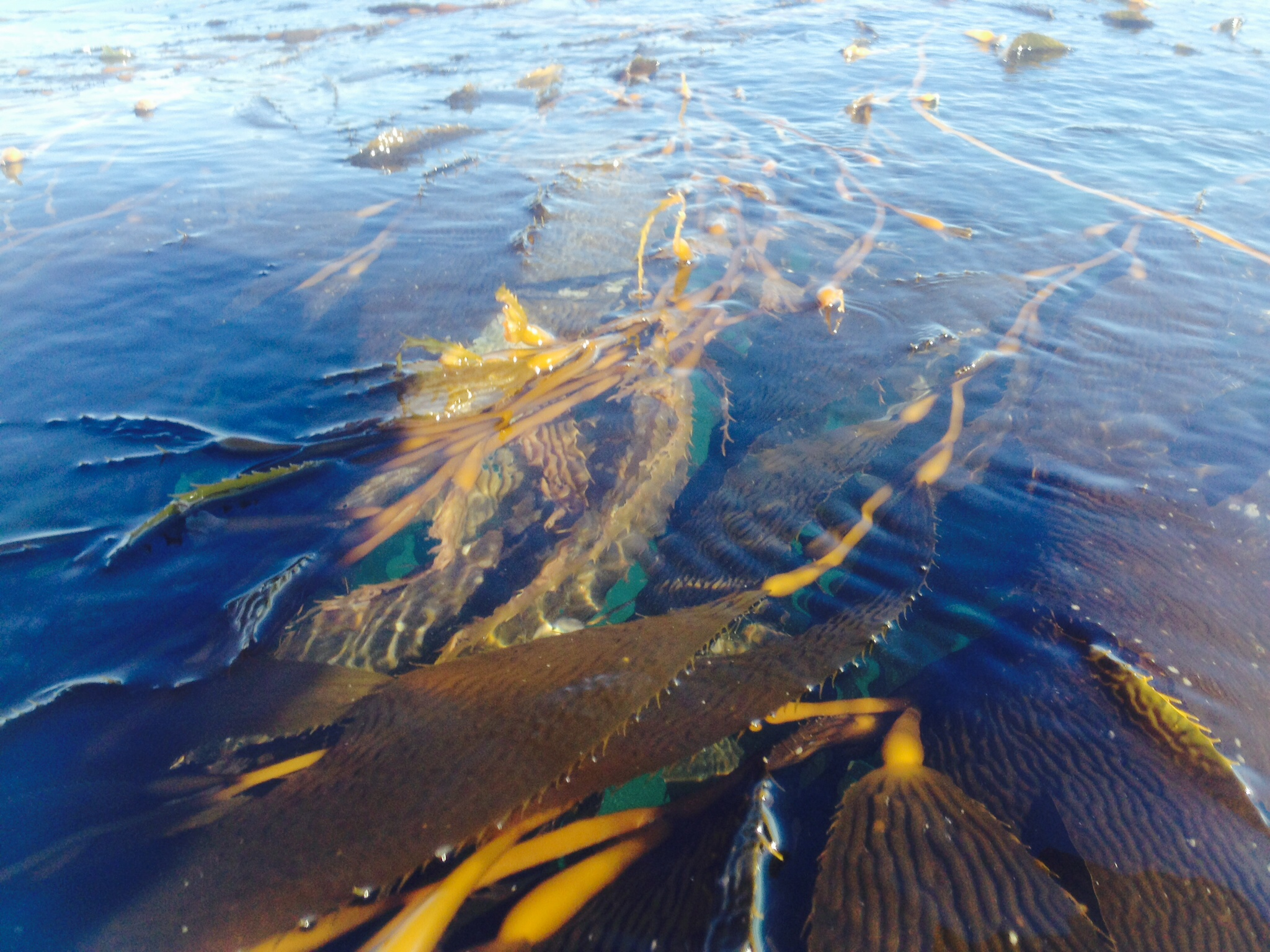 Photo of Giant Kelp floating inside the Santa Cruz harbor.